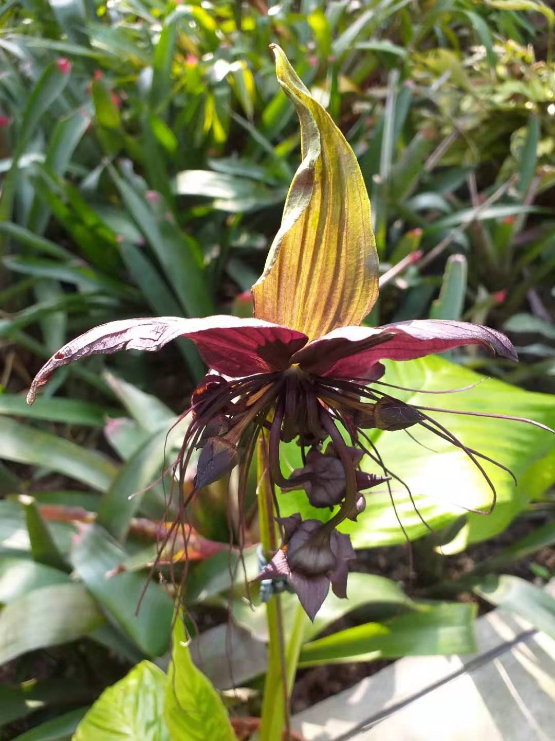 The sepals look like bat wings. Botanical Garden of National Museum of Natural Science, Taichung, Taiwan.